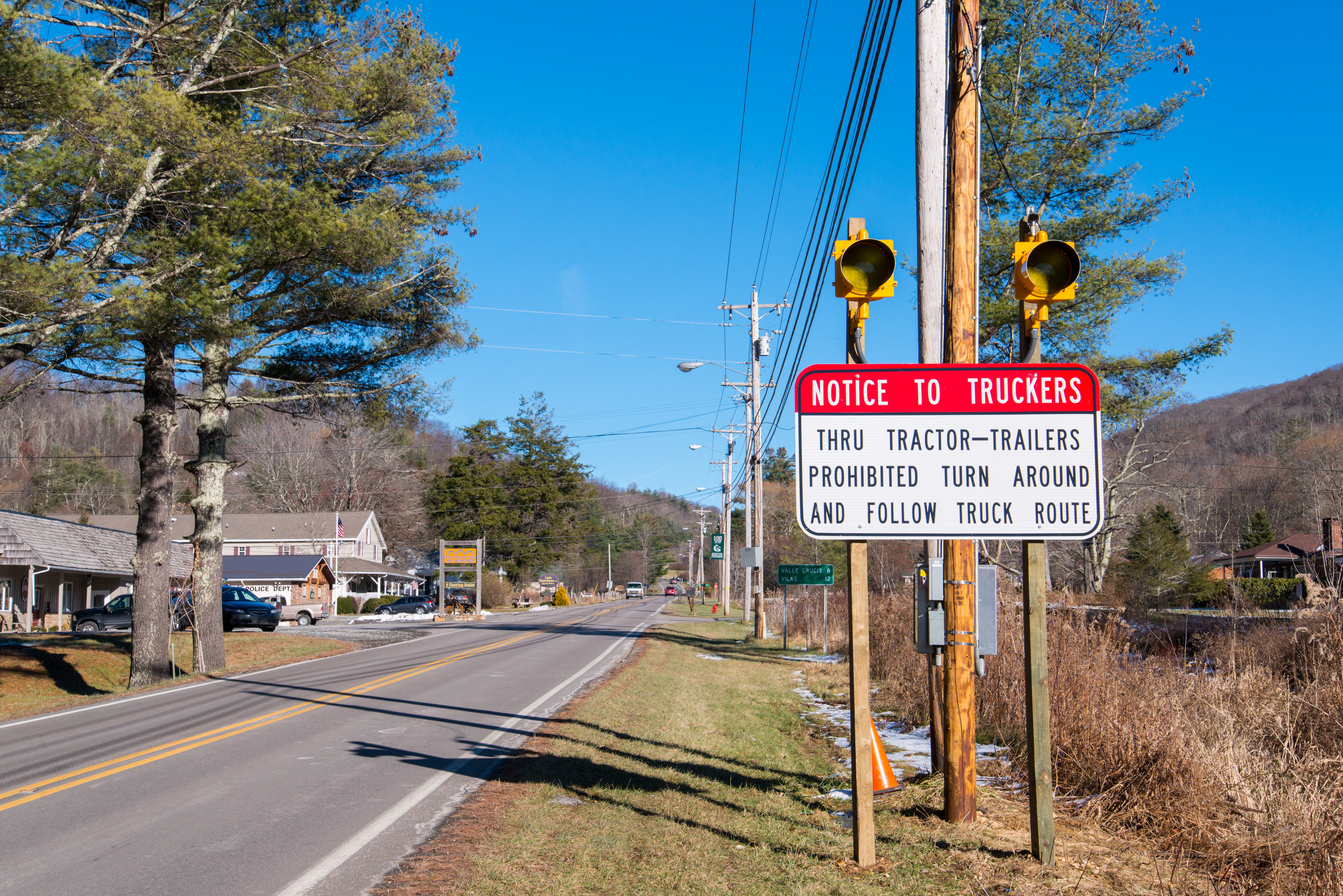 Along Banner Elk's Main Street, this truck warning sign flashes when a sensor triggers a tractor-trailer coming along the road. It is one of several warning signs for truckers along North Carolina Highway 194, around Banner Elk, Valle Crucis and Vilas.